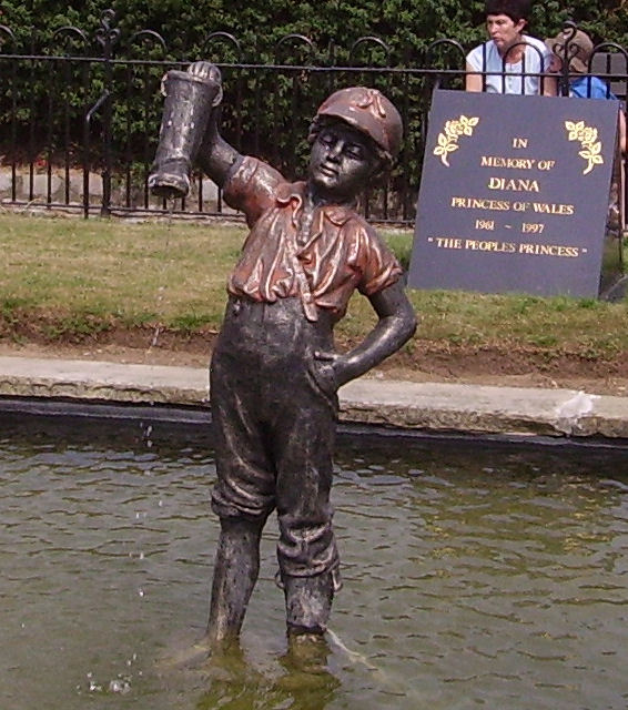 sight of Cleethorpes, United Kingdom